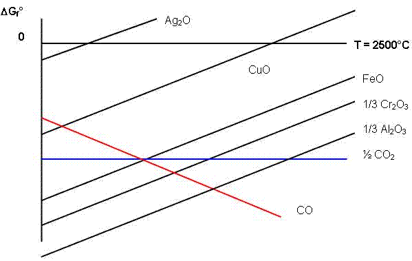 Schematic Ellingham diagram for five metal oxides and two carbon oxides.